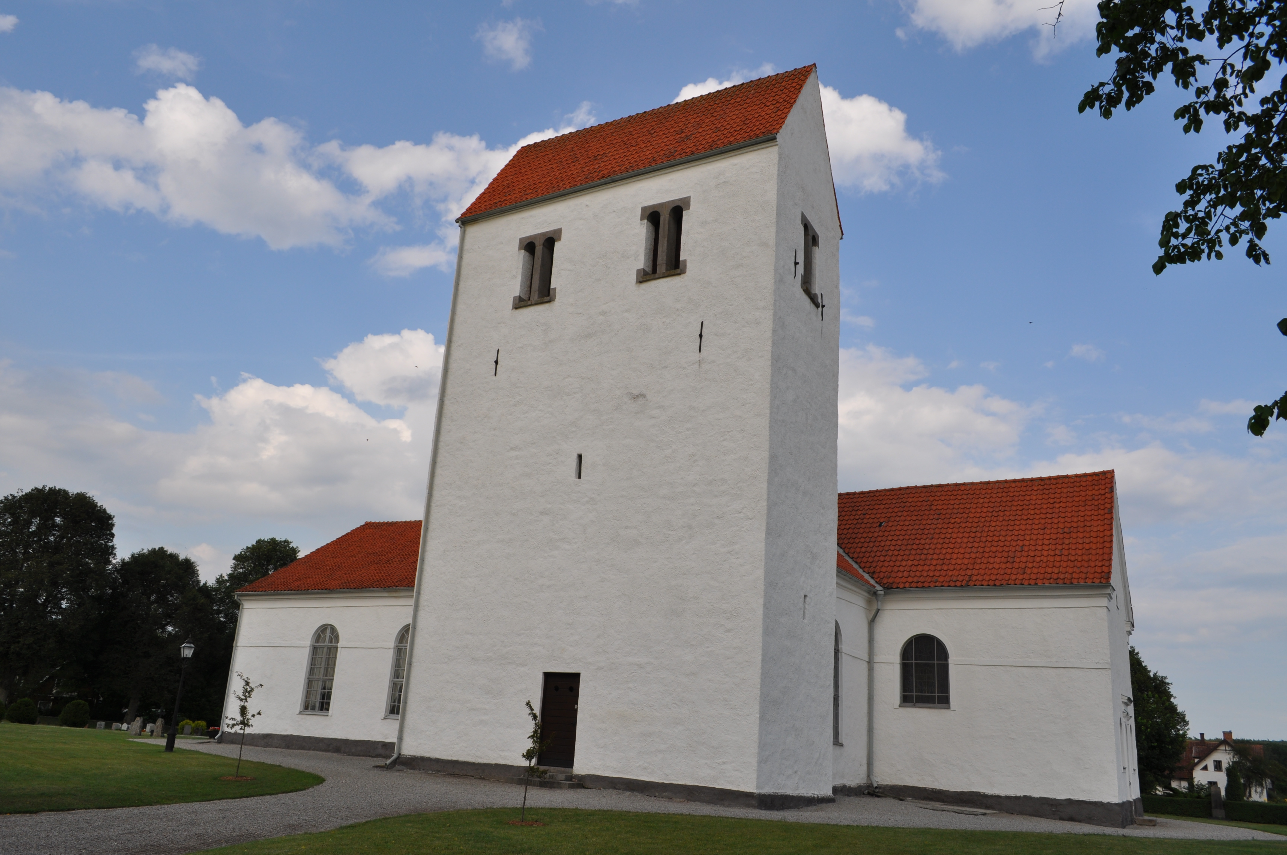 Fjälkestads church - kyrka